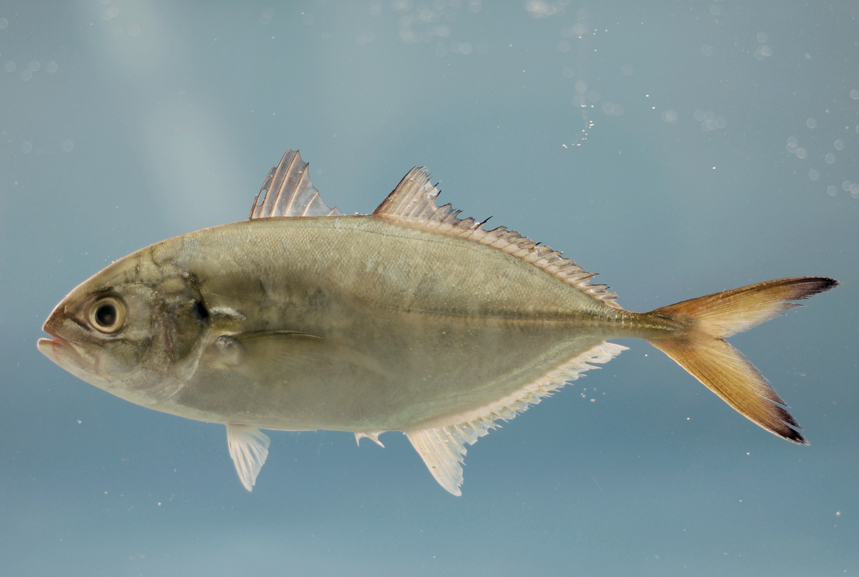 Caranx crysos from the Gulf of Mexico